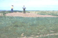 The Fort Thompson Mounds, a National Historic Landmark in Buffalo County, South Dakota, United States.